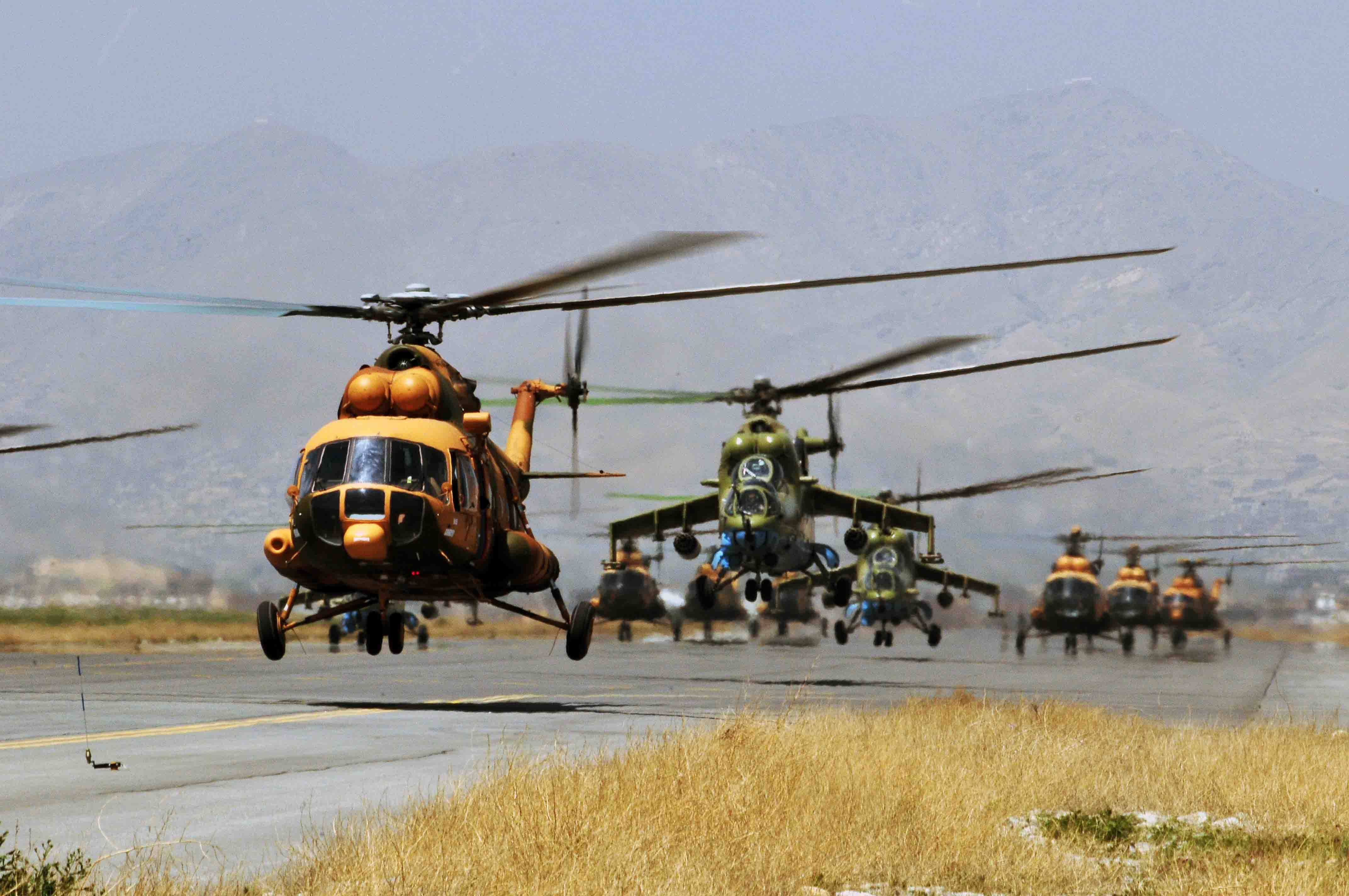 KABUL, Afghanistan -- A collection of Mi-17's and Mi-35 helicopters and C-27 and AN-32 Fixed Wing Craft take part in an air show in celebration of Victory Day on April 28, 2010 in Kabul, Afghanistan. (US Navy photo by Mass Communication Specialist 2nd Class David Quillen/ RELEASED).